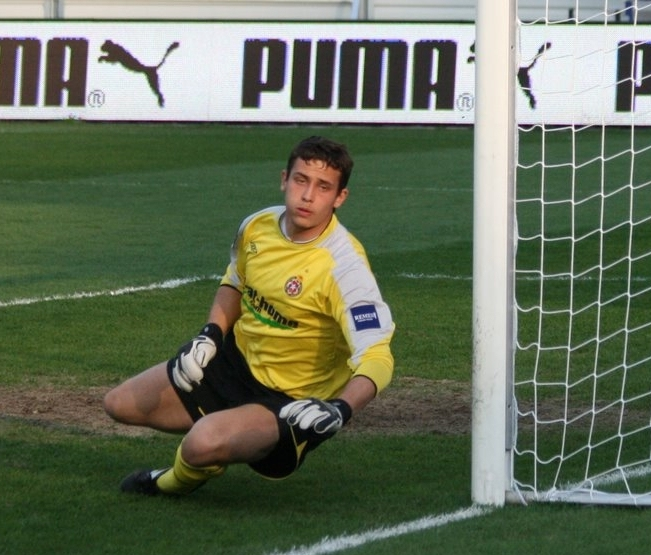 Ilie Cebanu